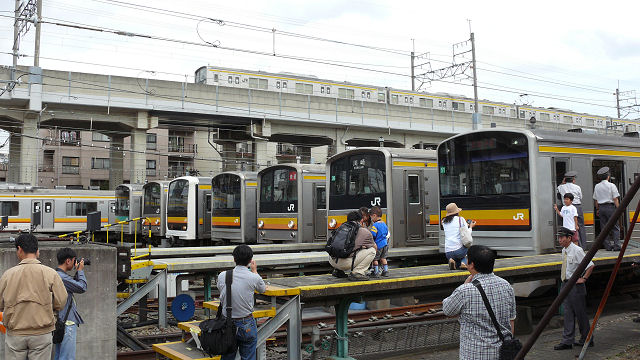 Rolling stock exhibited at Nakahara Electric Car Depot, JR East